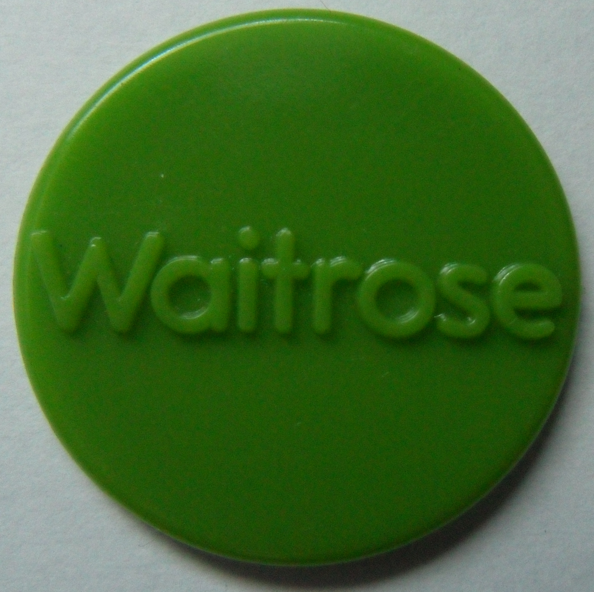 A charity token from Waitrose. This is given to someone that makes a purchase at Waitrose. Near the exit of the supermarket there is a big transparent plastic cuboid shaped container divided into 3 columns. In each columns is a charity name and details regarding to charity. The customer then decides to place the token in 1 of the 3 columns.